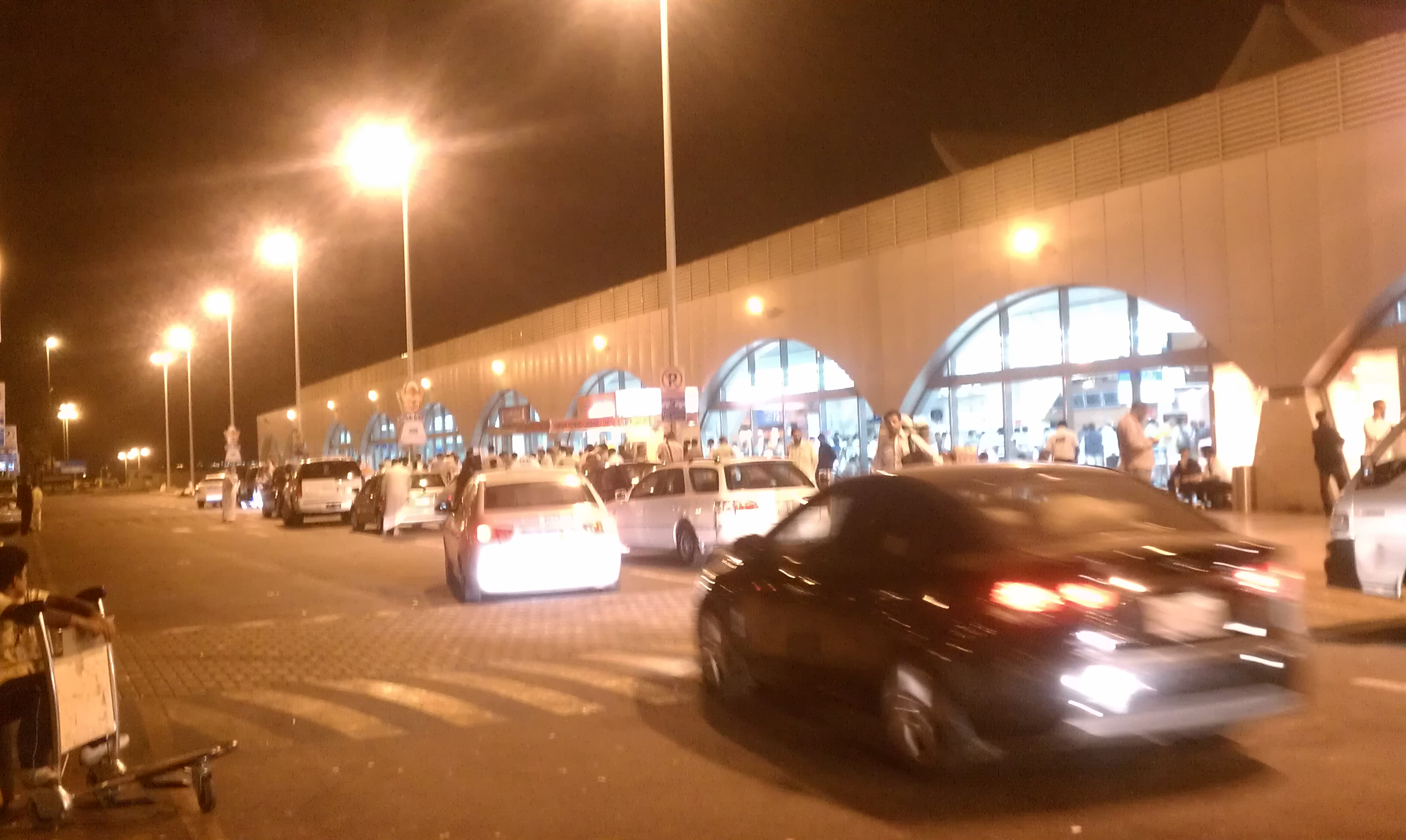 King Abdulaziz International Airport at night